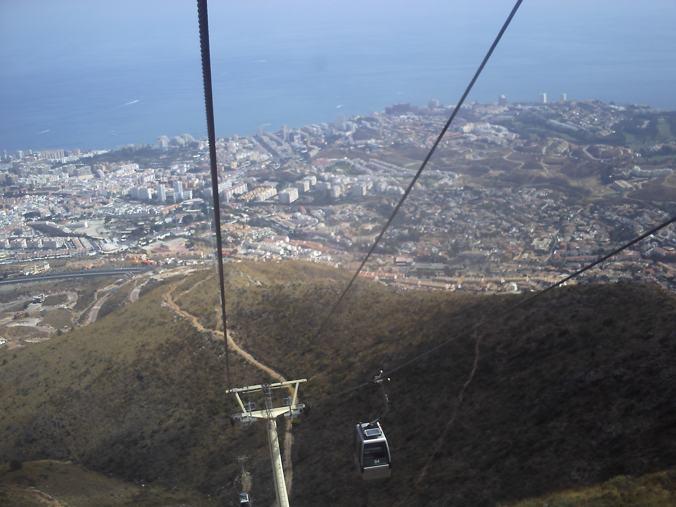 Cablecar in Benalmádena, Málaga, Spain. Descent from the top of mount Calamorro.